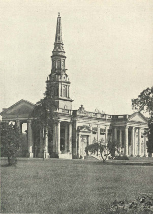 The Cathedral was opened in 1816 and contains many fine military and other monuments.